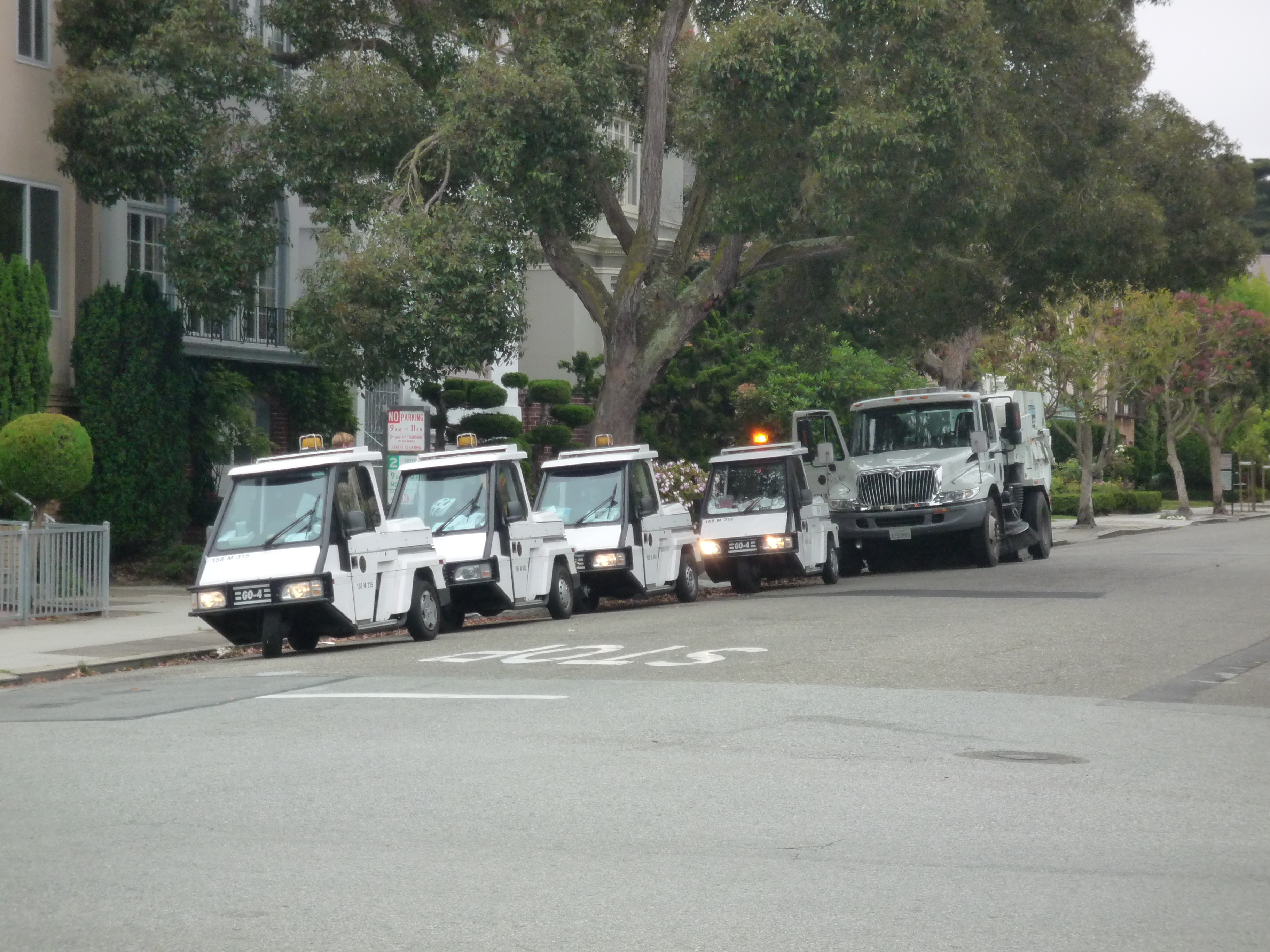 Four parking attendant vehicles waiting with a street cleaning vehicles.